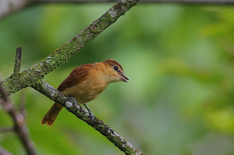 A rather active canopy bird which can be difficult to separate from the Rufous Piha and Rufous Mourner but usually the pale supra-loral stripe helps separate this Becard. Image taken on the lower slopes of the Arenal Volcano, Costa Rica.